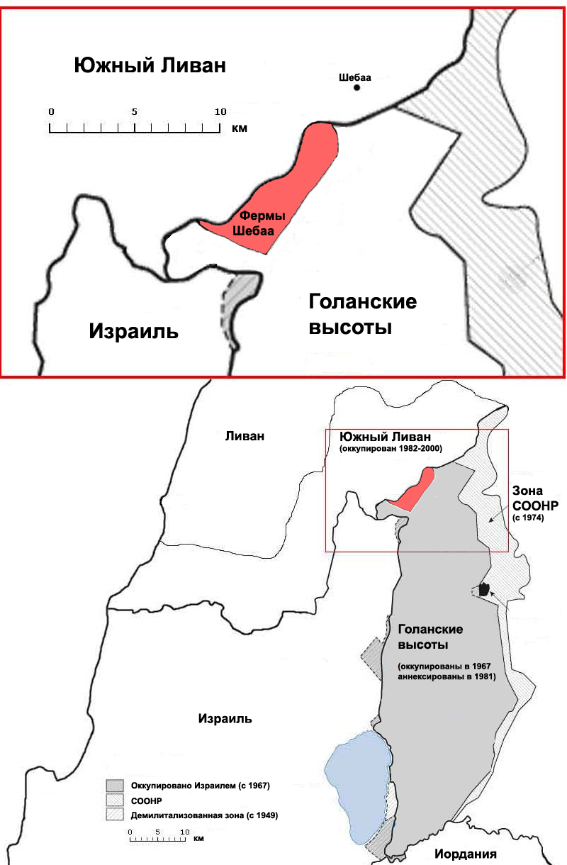 This is an Russian-language modified version of Image:Shebaa Farms.jpg, which is an Engligh-language modified version of Image:Schebaa-Farmen.jpg, which is in German. The original was produced by User:Kandro, it was translated in English by User:Garzo and modified by User:Kaveh and then translated in Russian by User:Drbug.